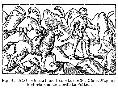 16th century depiction of Swedish traveller with horse.